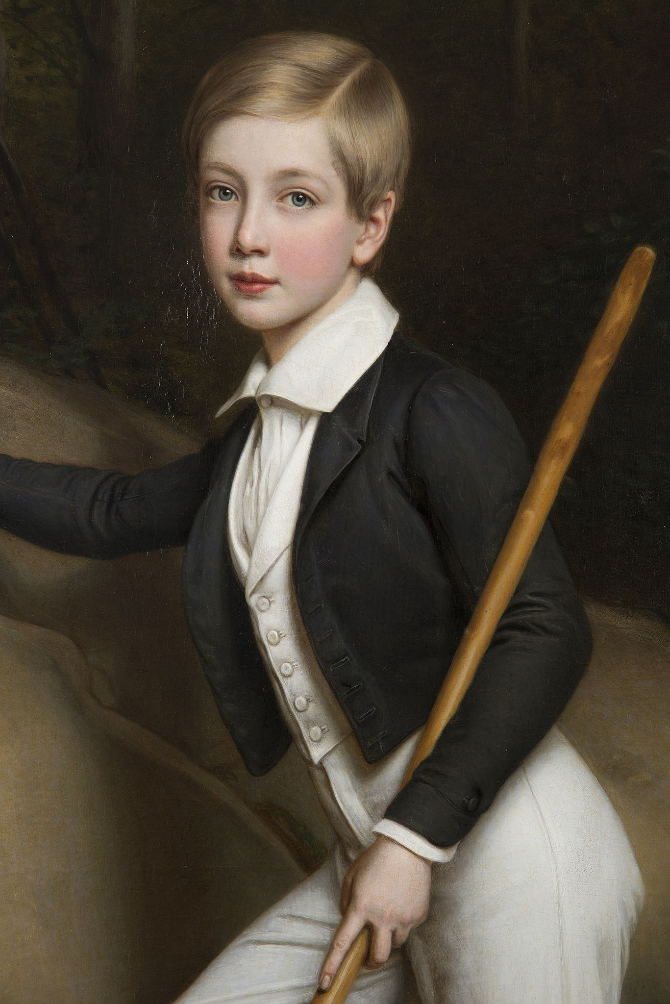 Archduke Ferdinand Maximilian Joseph of Austria (later Emperor Maximilian of Mexico) , by Joseph Karl Stieler.